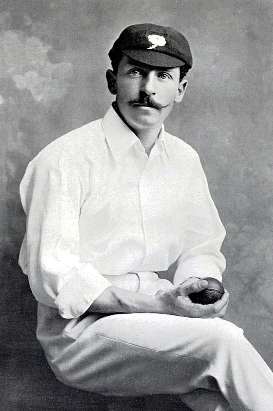 Sport, Cricket, Circa 1895, Frank William Milligan, Yorkshire, (1894-1898)